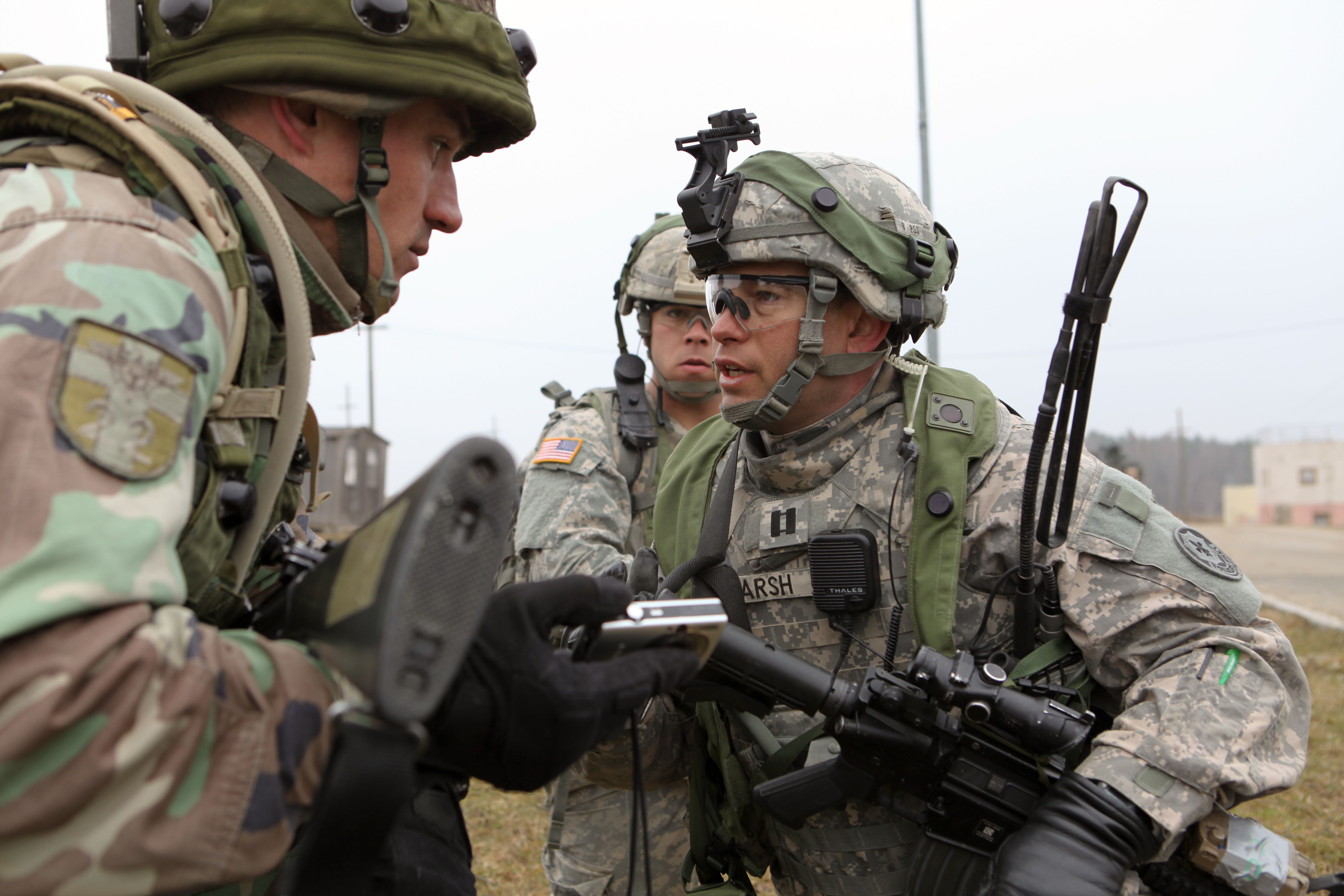 Moldovan army Capt. Deli Ianec, left, role-playing as an Afghan National Army officer, and U.S. Army Capt. Trey Marsh, with Iron Troop, 3rd Squadron, 2nd Cavalry Regiment, review pictures taken after a search during a mission rehearsal exercise at the Joint Multinational Readiness Center in Hohenfels, Germany, March 11, 2013. Mission rehearsal exercises develop combat skills, counterinsurgency tactics and interoperability between military forces of the U.S. and its partner nations before a scheduled deployment.